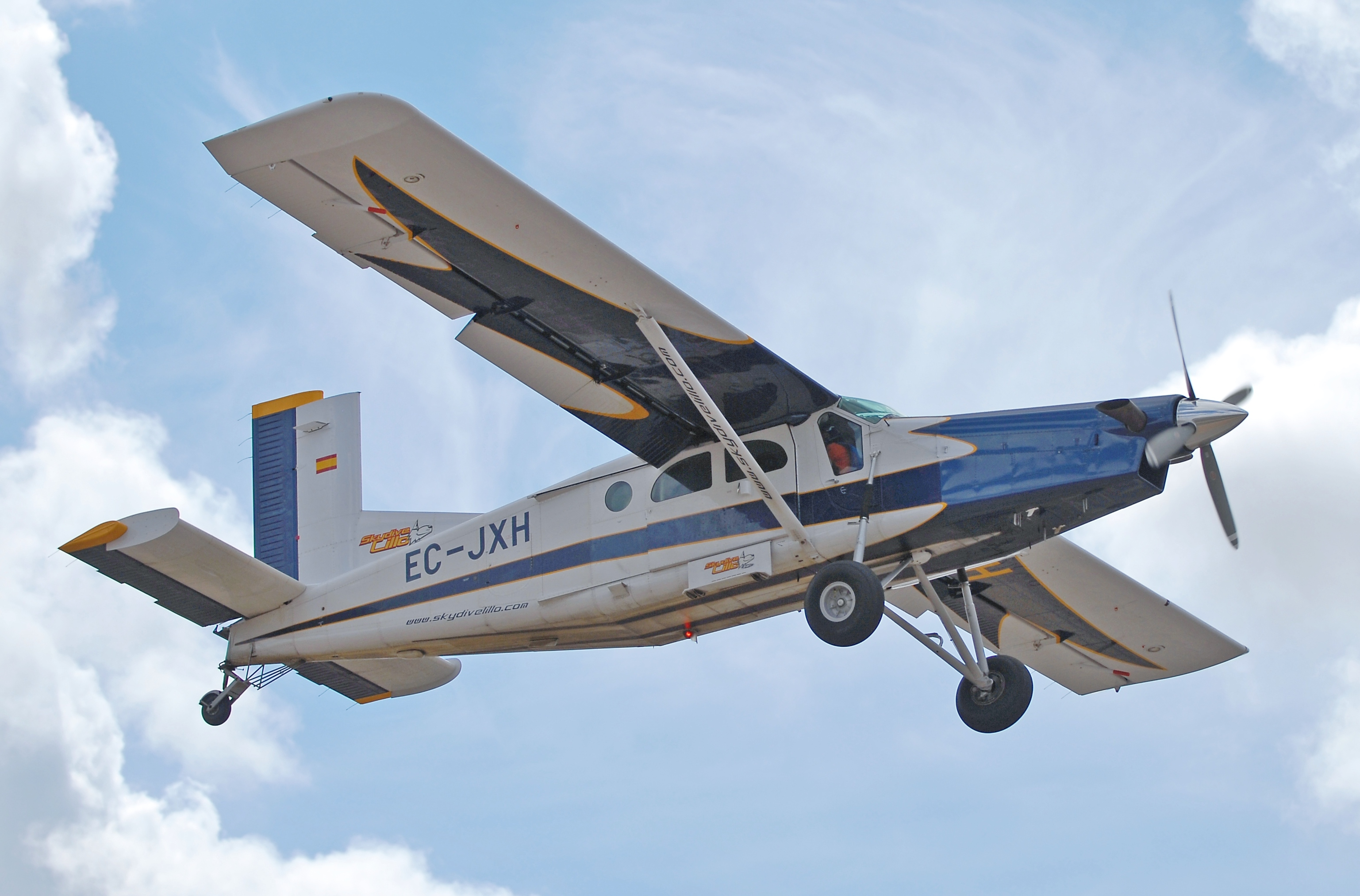 The Pilatus PC-6 Turbo Porter jump plane of Skydive Lillo, in Lillo, Spain. This is the B2-H4 PT6A-34 variant. The picture was taken shortly after take-off from the ground. The plane crashed on May, 30, 2008.